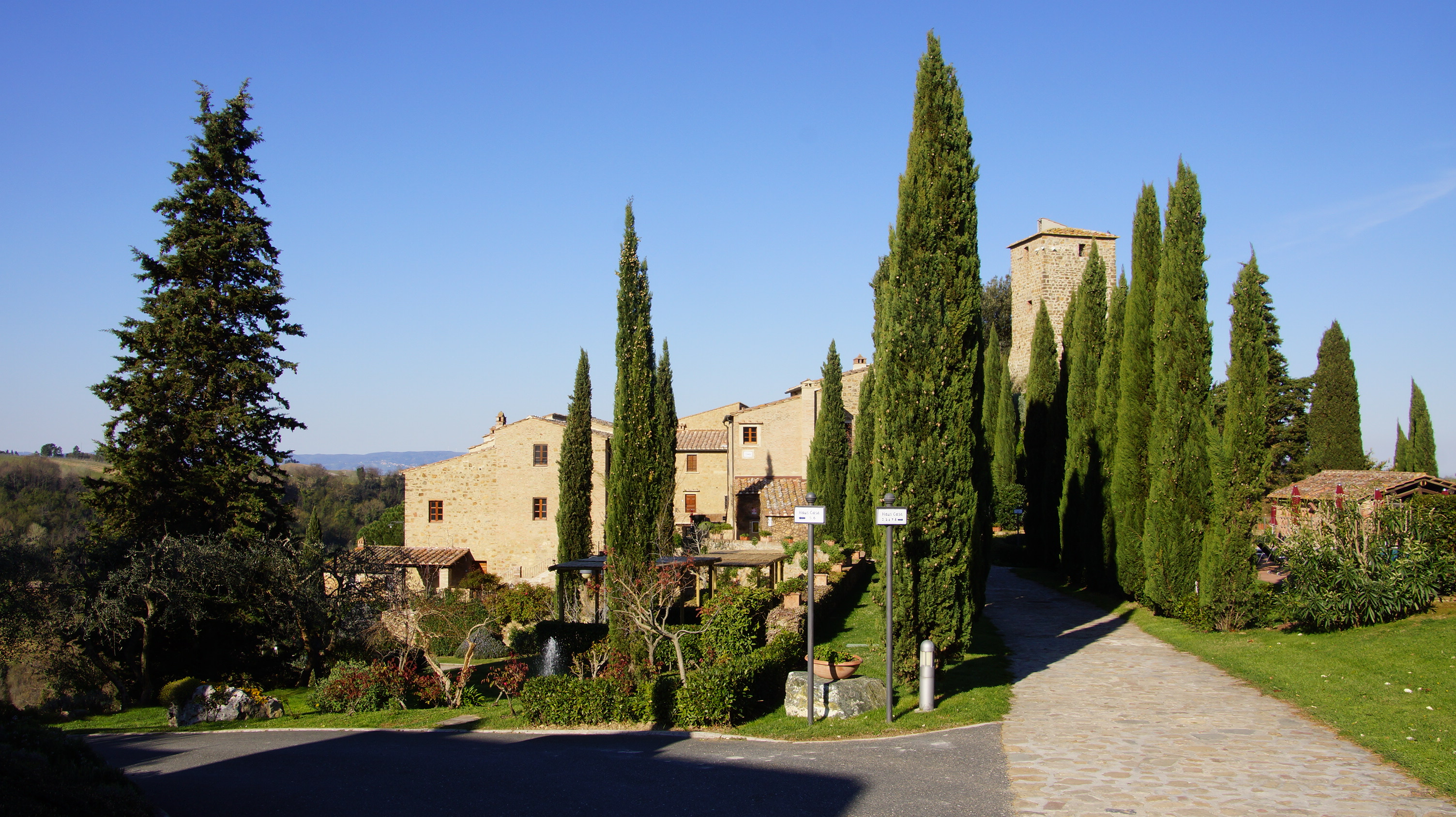 Tonda near Montaione in Tuscany